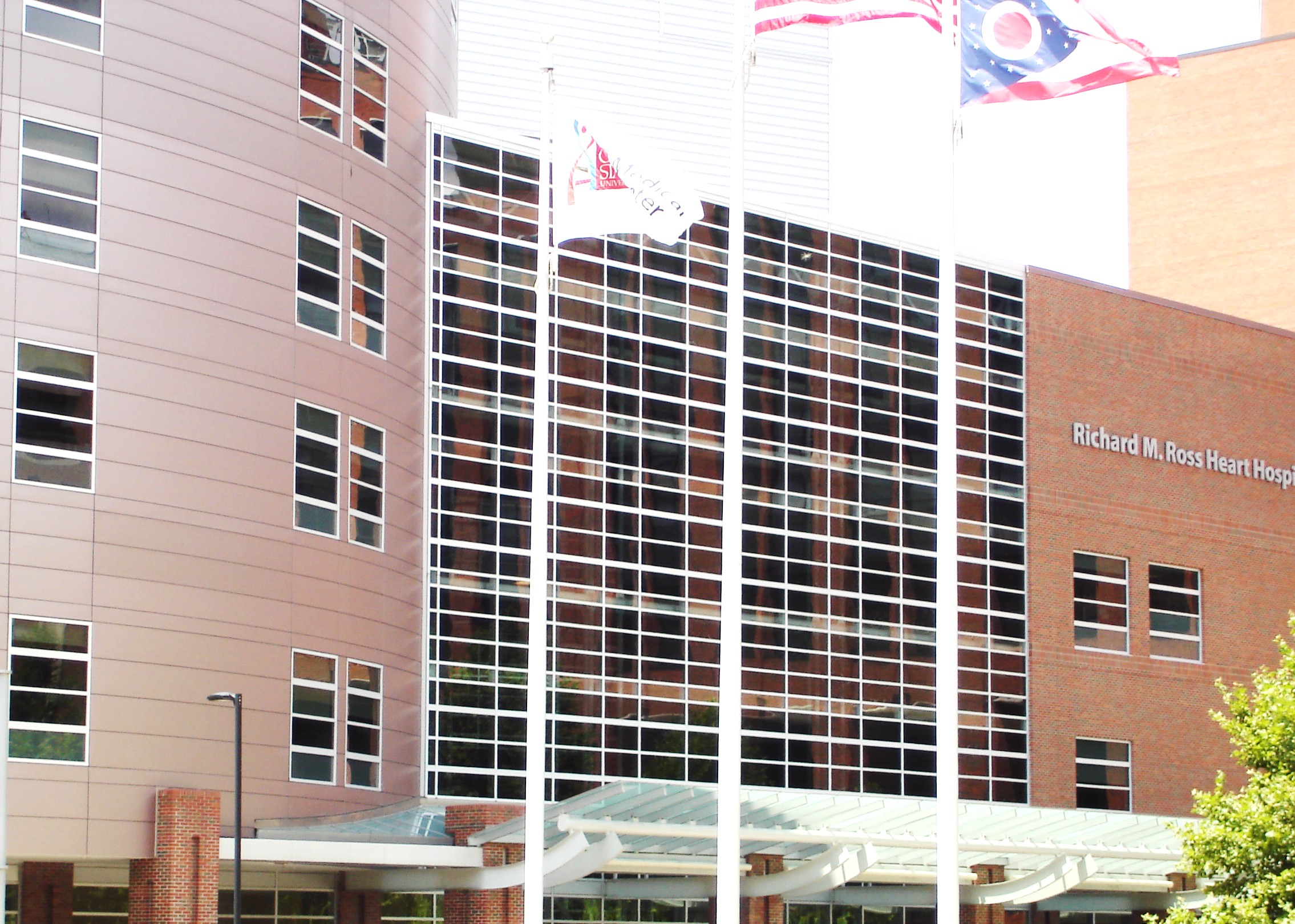 Ross Heart Hospital at the Ohio State Medical Center